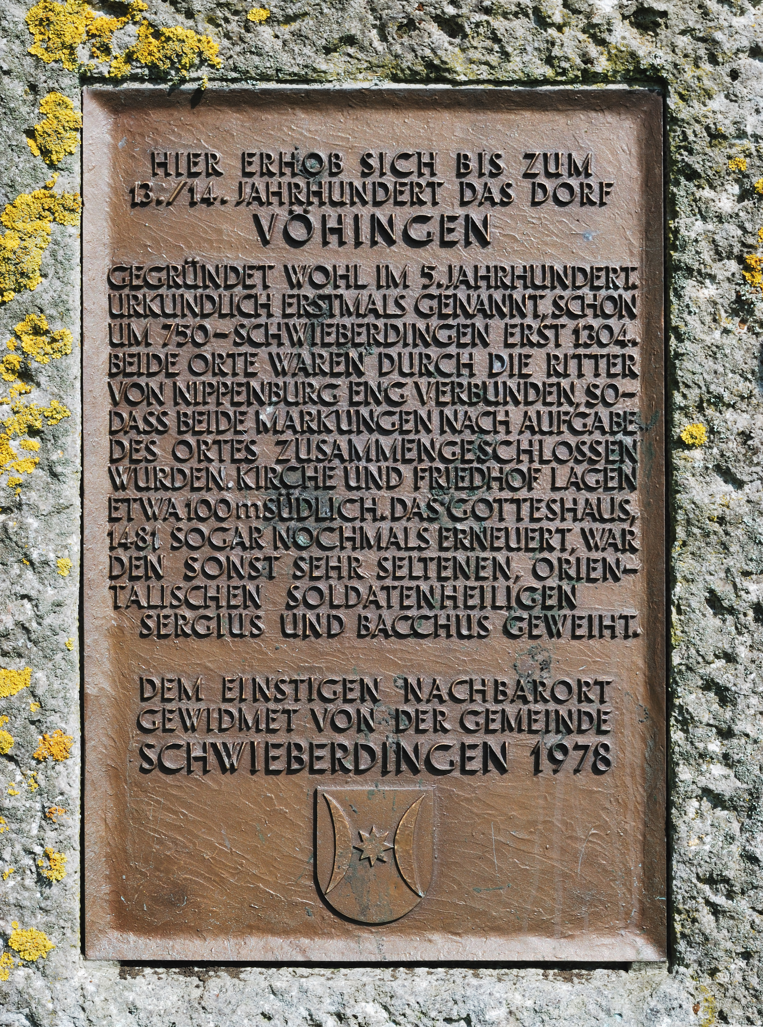 Commemorative plaque for the former mediaeval village Vöhingen, nearby Schwieberdingen in Southern Germany. The plaque was errected by the city Schwieberdingen in 1978.